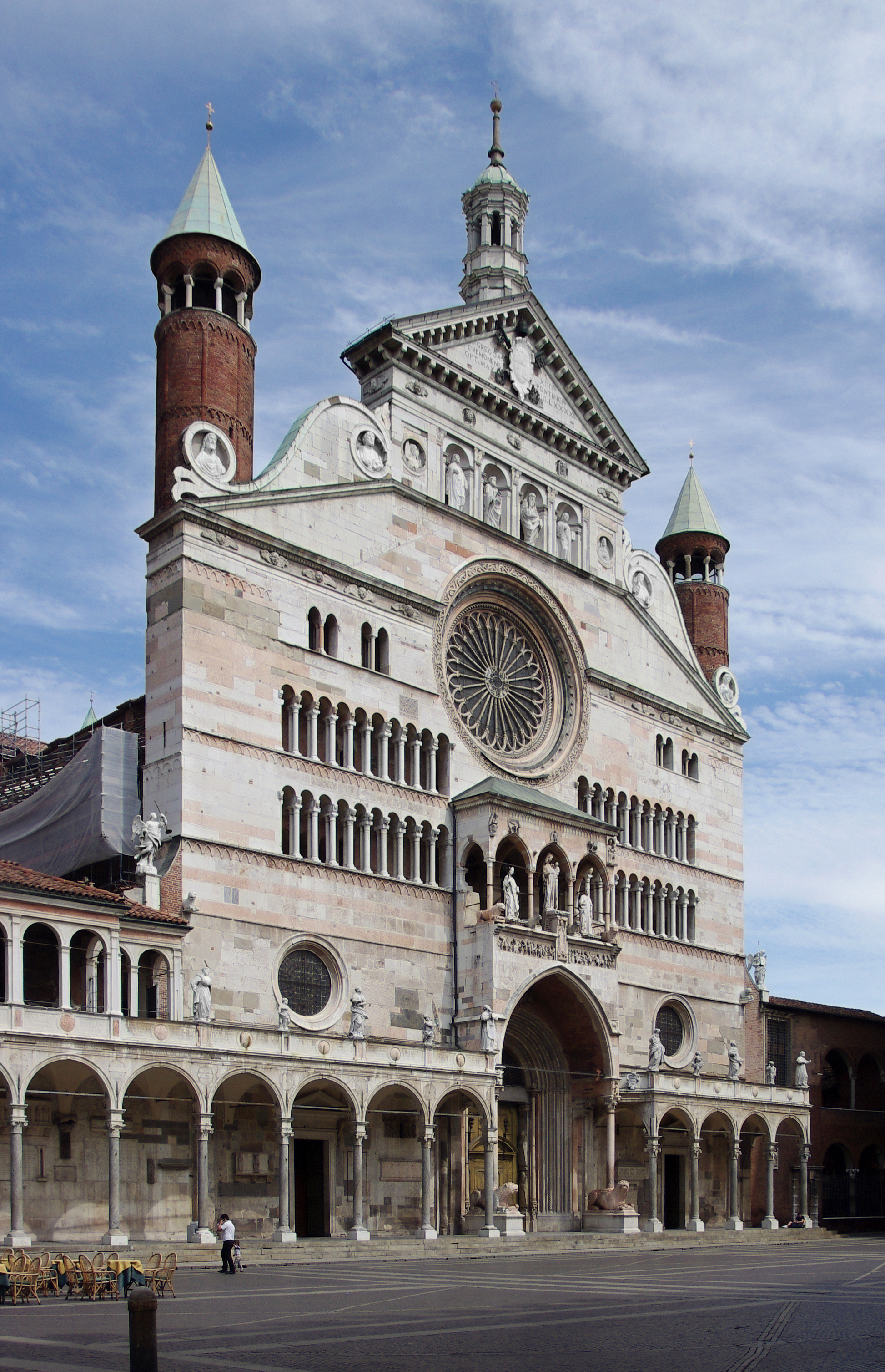 Cremona Cathedral